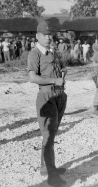 Captain Sakae Oba Close-up